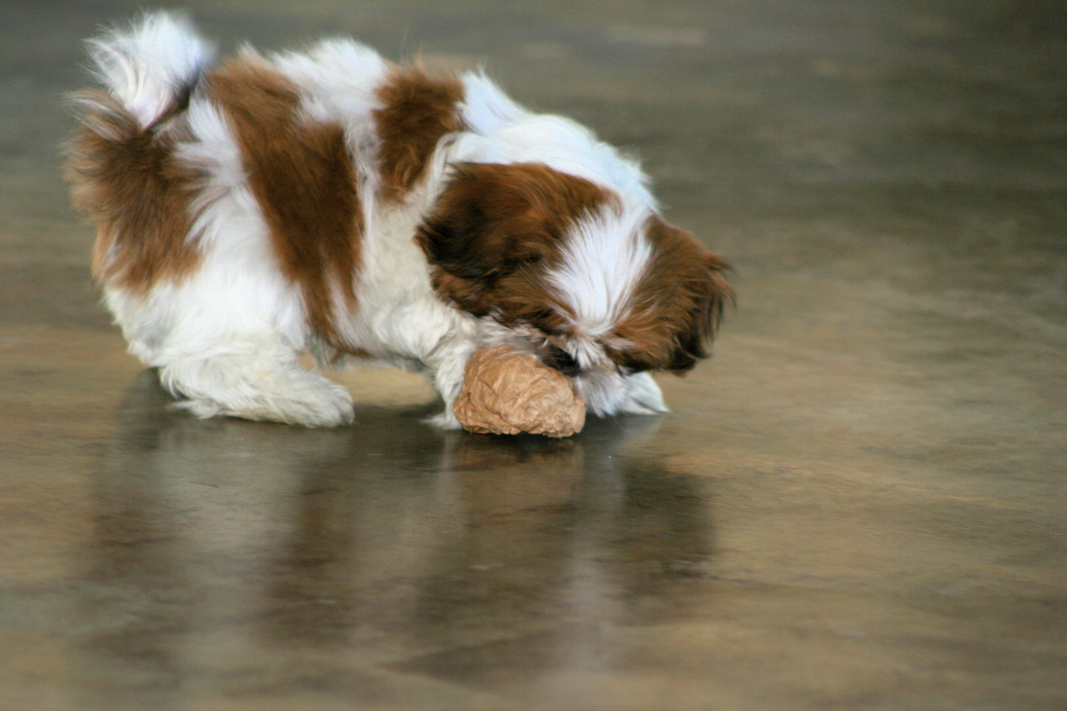 Wonton likes playing with wadded-up pieces of paper.